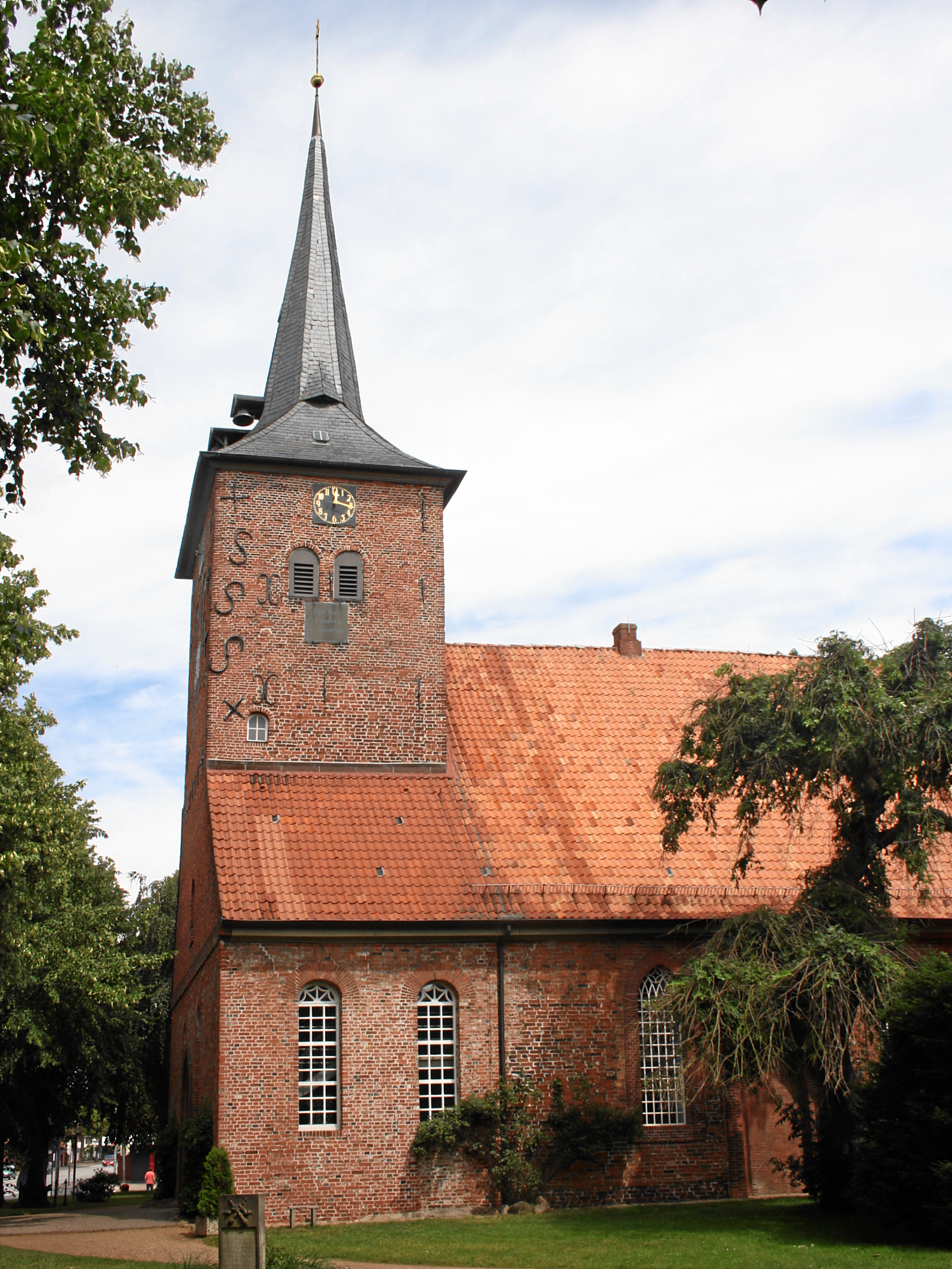 Bad Bramstedt, Germany. Protestant parish church Mary Magdalene, exterior from South.